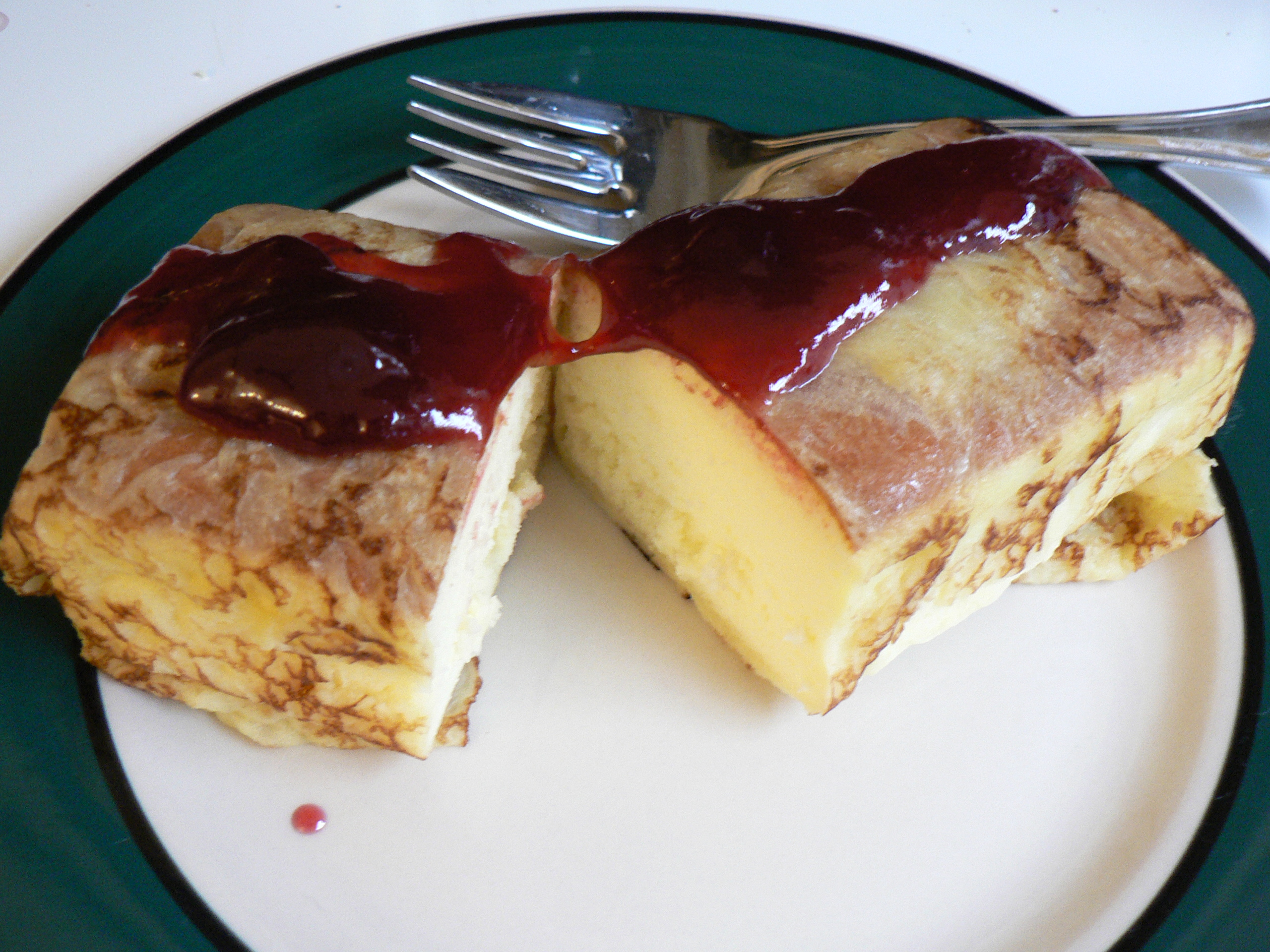 From Koko bakery. I liked it. The jam is red raspberry from the farmers market.